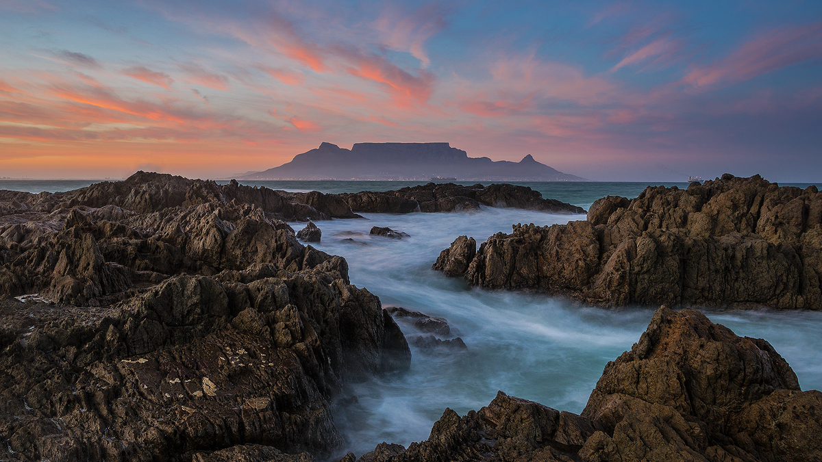 Table Mountain from Bloubergstrand. Table Mountain (Afrikaans: Tafelberg) is a flat-topped mountain forming a prominent landmark overlooking the city of Cape Town in South Africa, and is featured in the Flag of Cape Town and other local government insignia. It is a significant tourist attraction, with many visitors using the cableway or hiking to the top. The mountain forms part of the Table Mountain National Park. The view from the top of Table Mountain has been described as one of the most epic views in Africa.